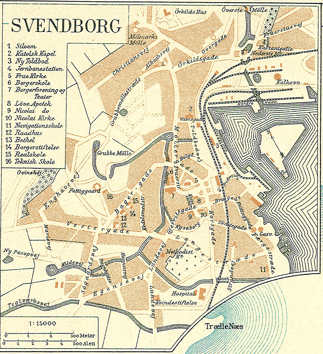 Map of Odense County in Denmark